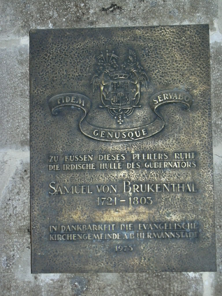 Tombstone for Samuel von Brukenthal, governor of Transylvania, at the Protestant Church of Hermannstadt / Sibiu, Romania.